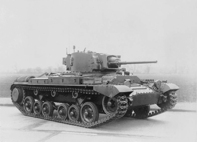 BRITISH TANKS AND ARMOURED FIGHTING VEHICLES 1939-45: Infantry Tank Mk III* Valentine III.